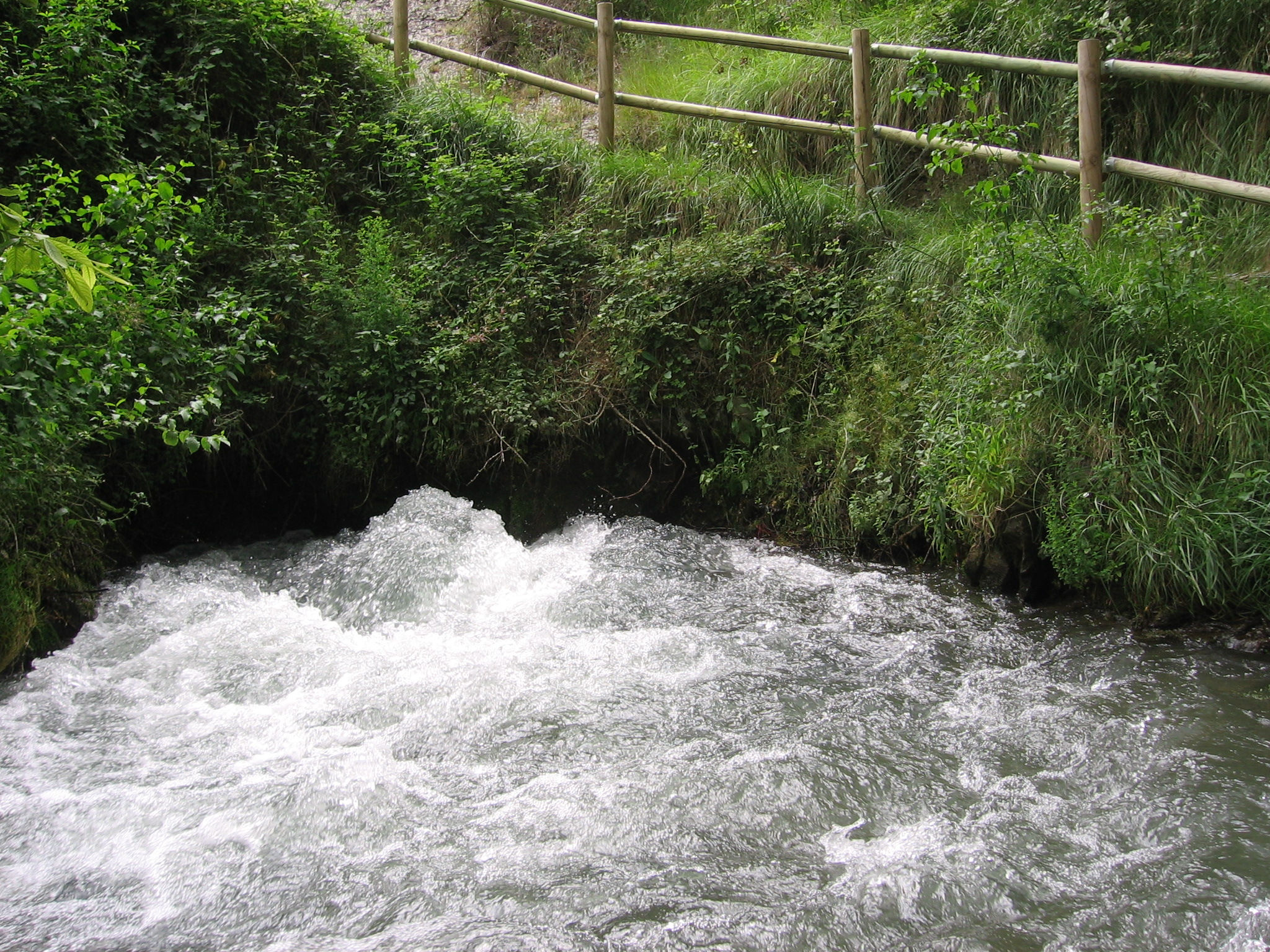 Source of the Queiles.